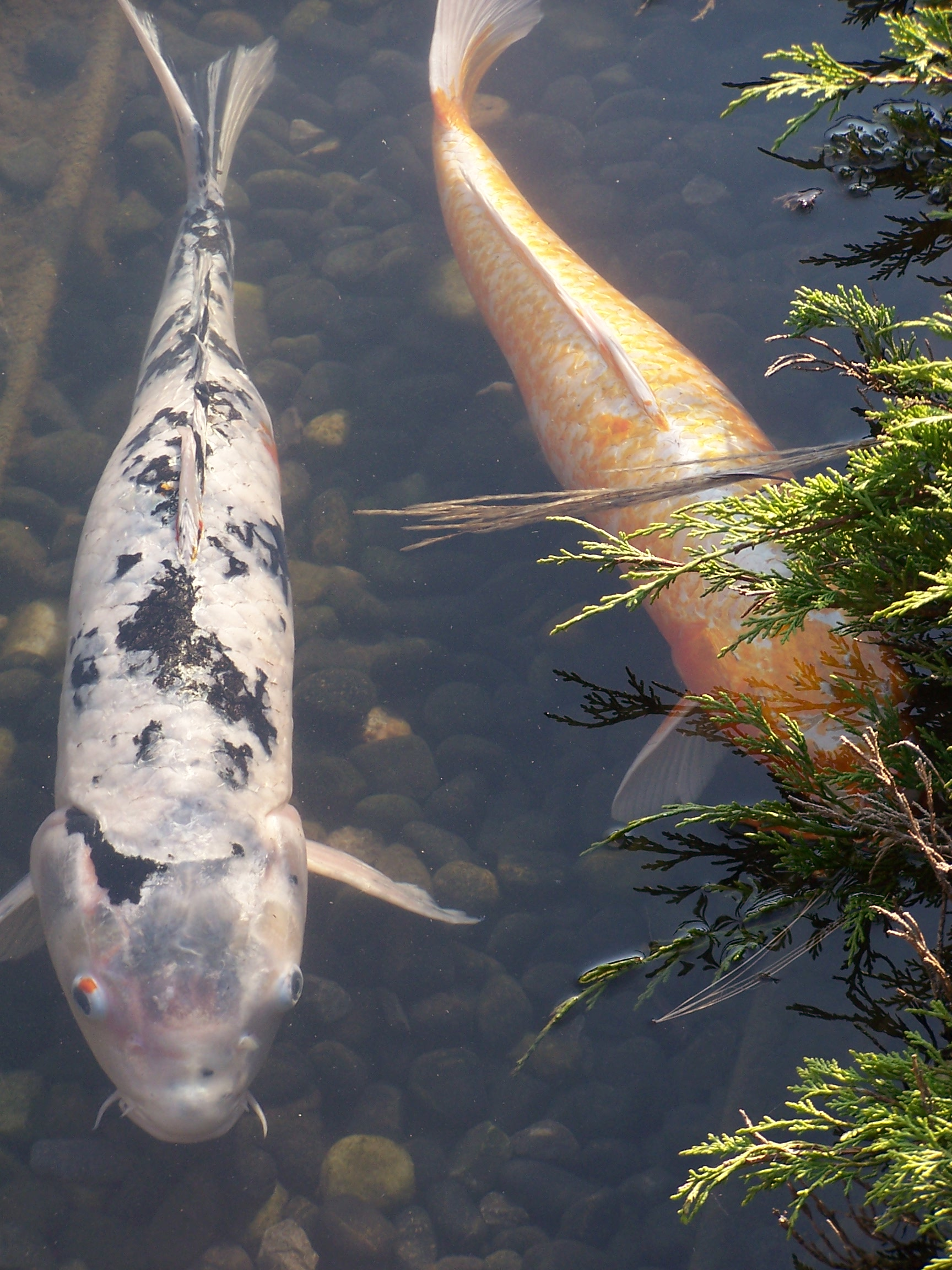 Two kois - Maybe a bekko (left) and a Kawarimono (right)